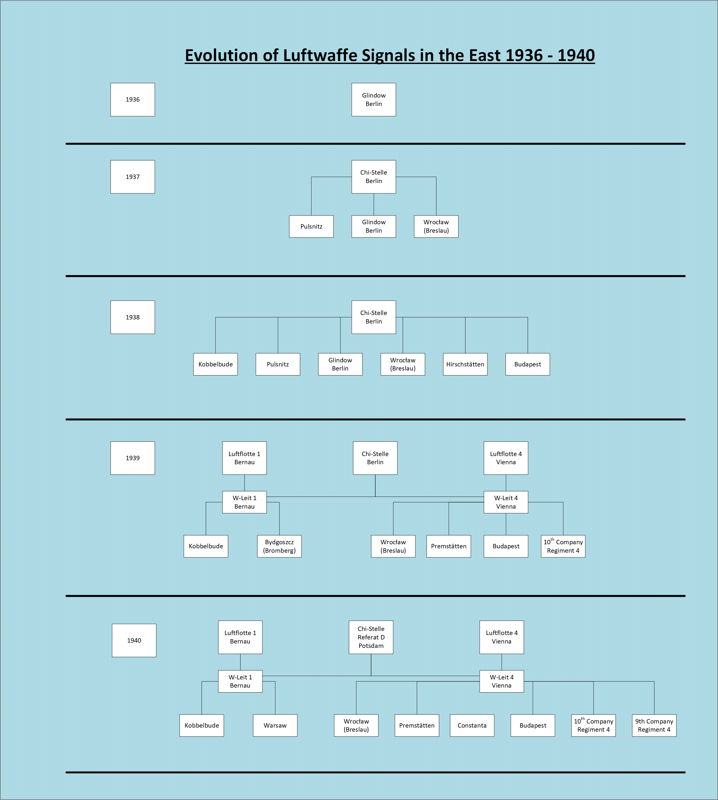 Evolution of Luftwaffe signals intelligence units from 1936 to 1940. Image will be used in Luftnachrichten Abteilung 350